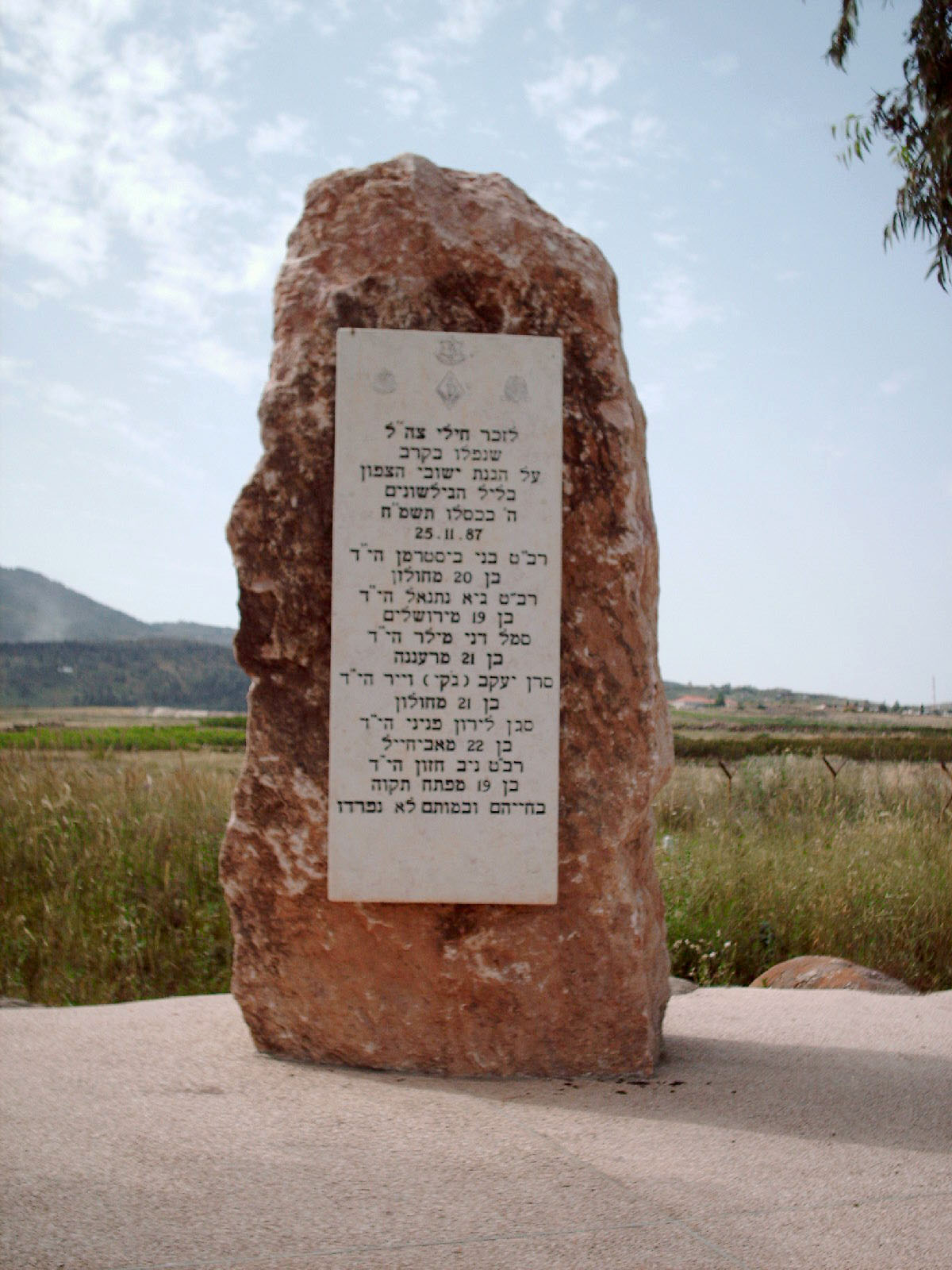 monument commemorating the "Night of the Gliders" near Qiryat Shmona, Israel